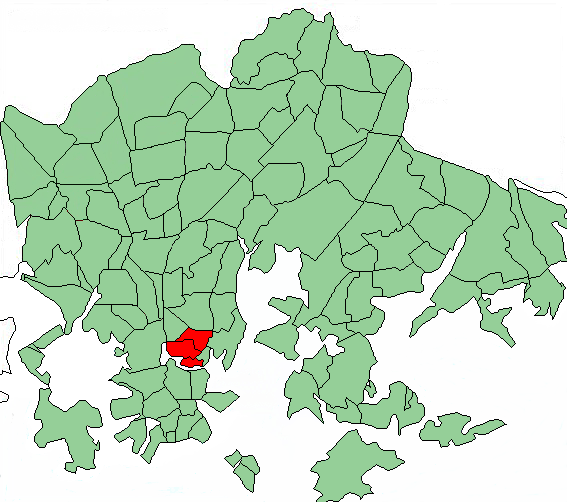 Map of Helsinki highlighting Kallio